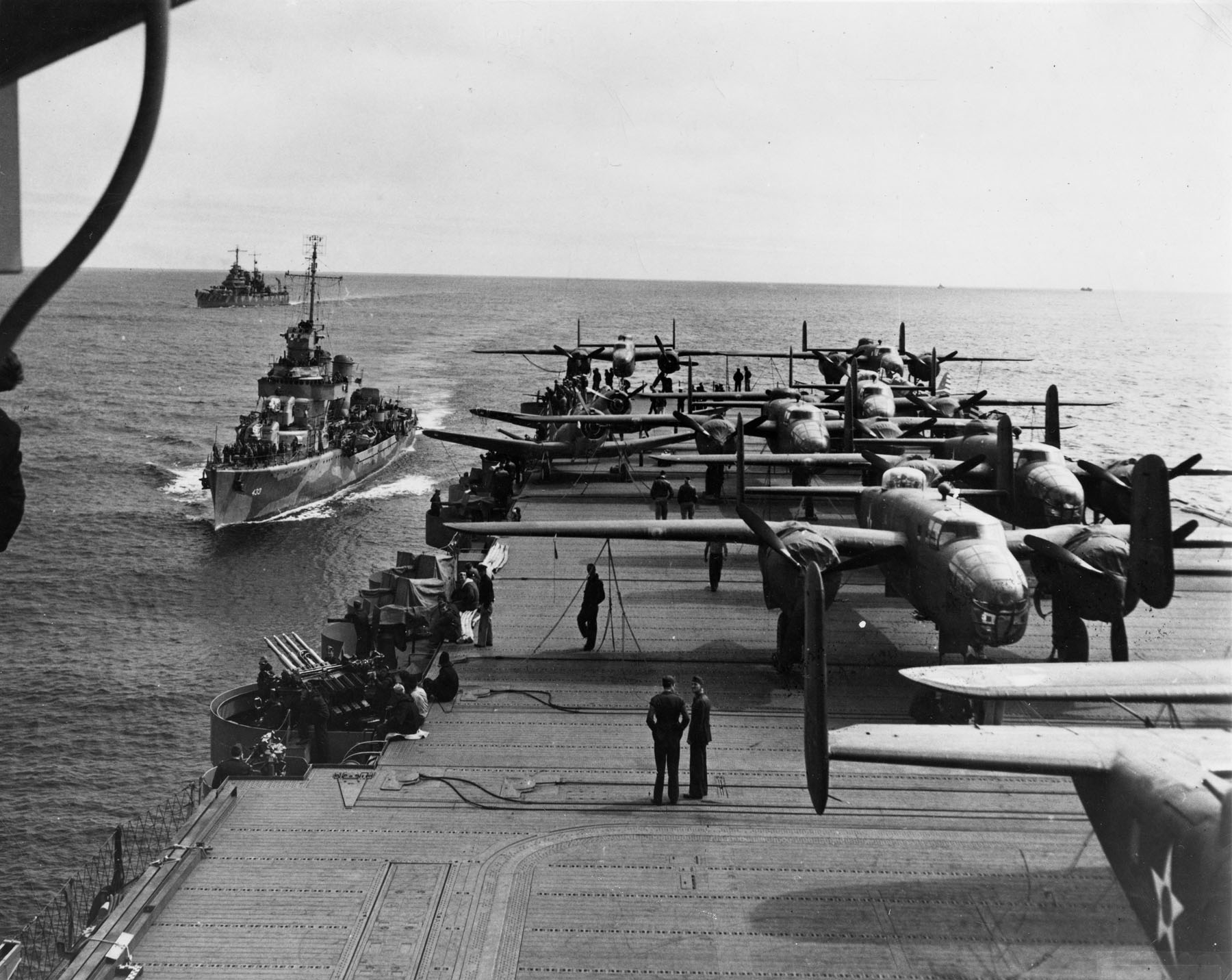 View of the after part of the flight deck of the U.S. Navy aircraft carrier USS Hornet (CV-8) during the "Doolittle Raid" on 18 April 1942. Visible are eight of 16 U.S. Army Air Force North American B-25B Mitchell bombers and four of Hornet´s Douglas SBD Dauntless dive bombers. The Gleaves-class destroyer USS Gwin (DD-433) is coming alongside, the light cruiser USS Nashville (CL-43) is visible on the left.